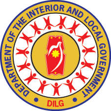 Seal of the Department of the Interior and Local Government of the Philippines